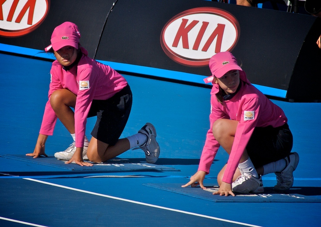 Ballkids, Australian Open 2010